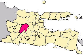 Location of Nganjuk county in East Java province, Indonesia